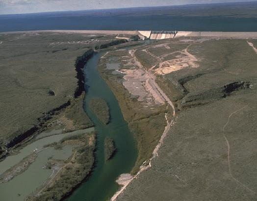 Amistad National Recreation Area, Rio Grande River, Amistad Reservoir, and Amistad Dam in Val Verde County, Texas and Coahuila, México. Dam coordinates: 29°27′0″N 101°3′30″W / 29.45°N 101.05833°W